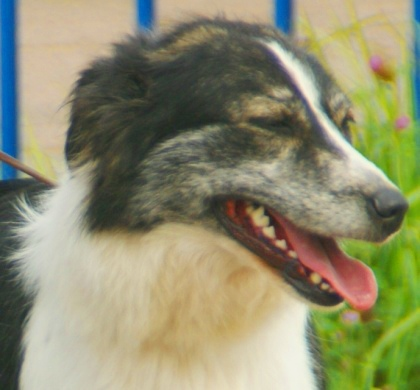 Atlas Mountain Dog's head